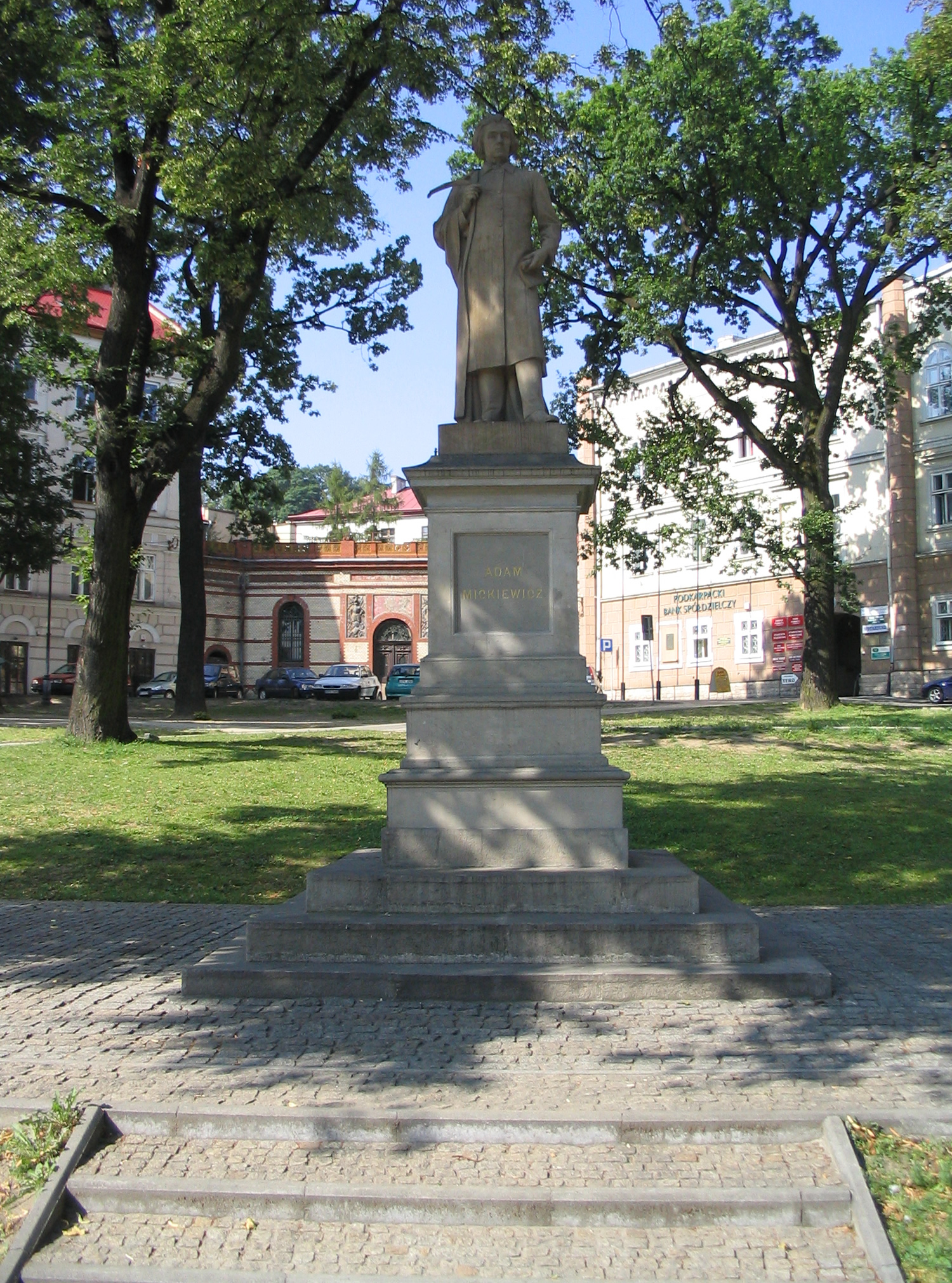 Adam Mickiewicz monument in Przemyśl Author: Goku122